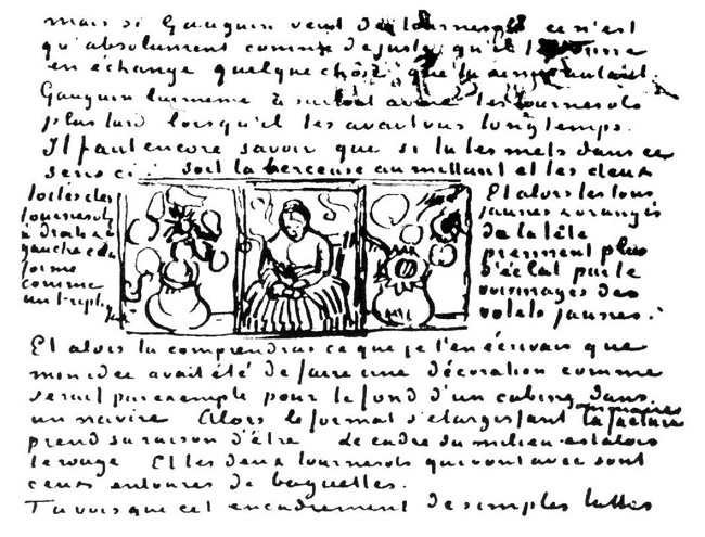 Excerpt from a letter by Vincent van Gogh to his brother Theo. Saint-Rémy, 22 May 1889. (letter 529)